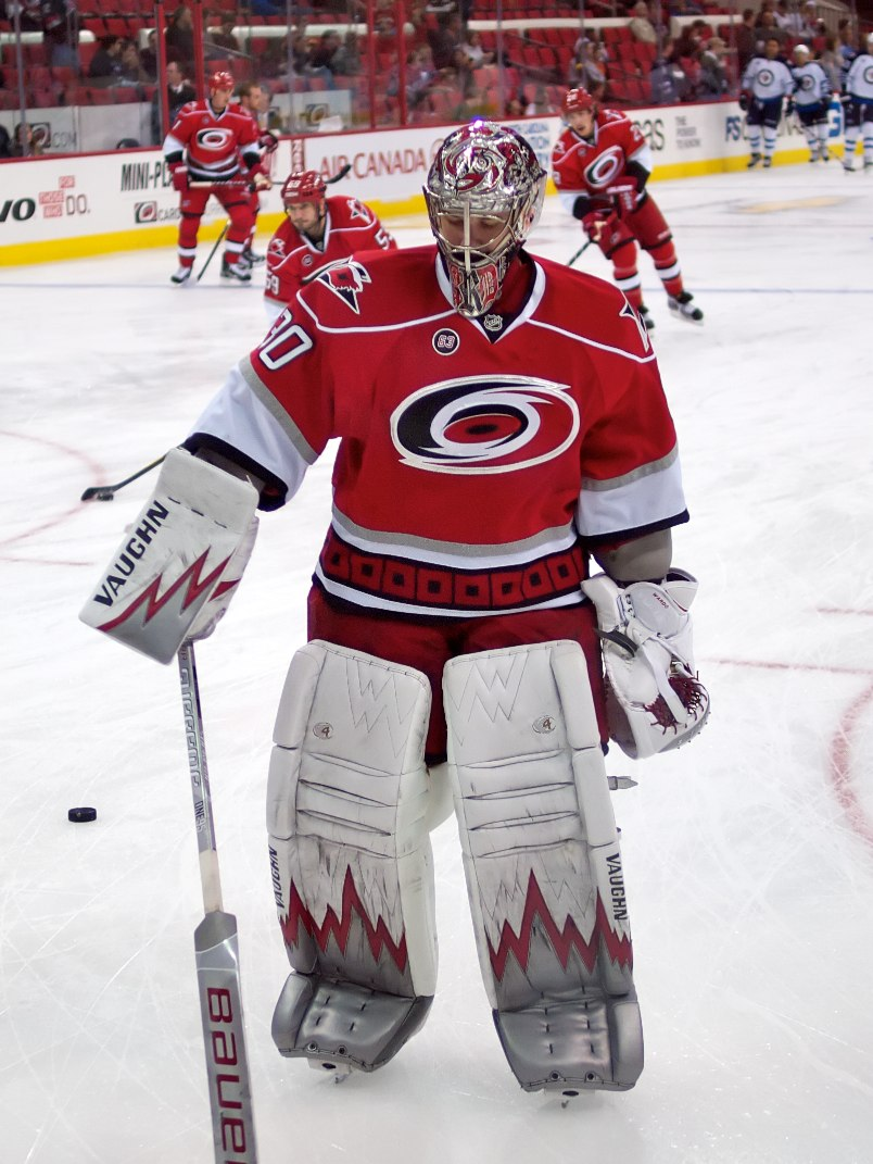 Cam Ward, Canadian ice hockey goaltender